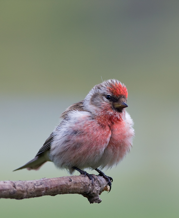 A male Lesser Redpoll in Lochwinnoch, Renfrewshire, Scotland.